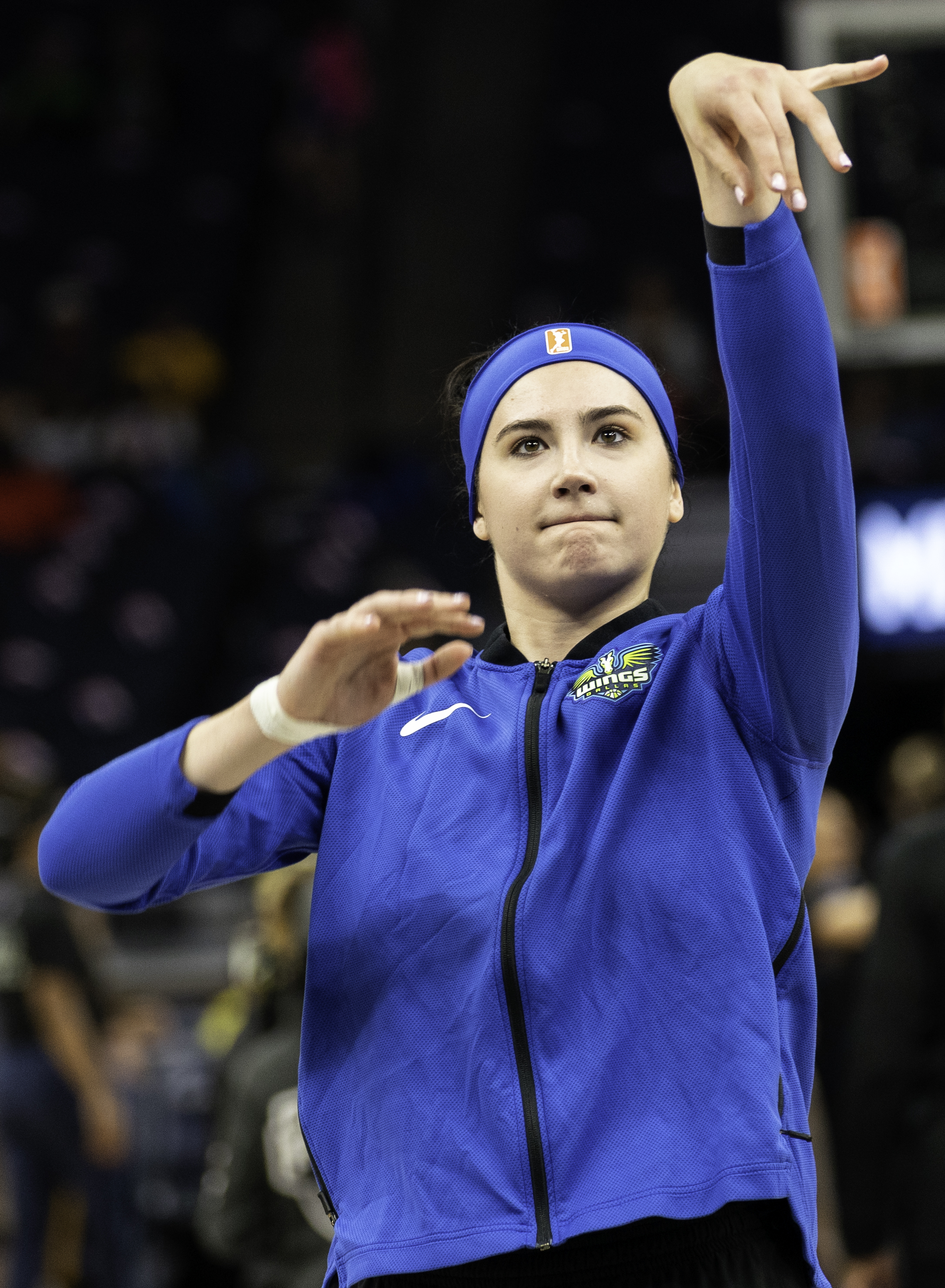 Megan Gustafson warming up for a game against the Minnesota Lynx